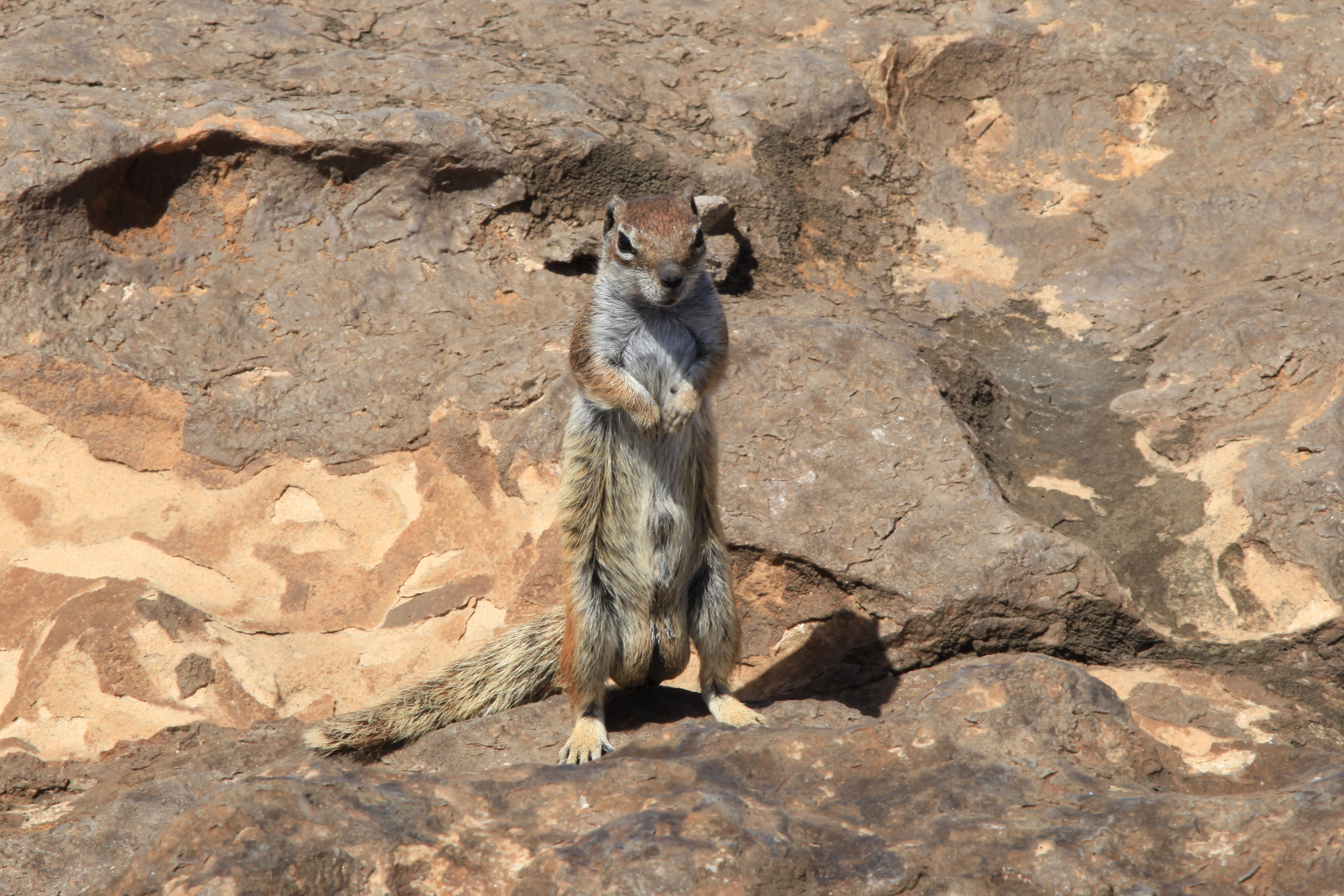 Atlantoxerus getulus at Punta Guadalupe in La Pared, Pájara, Fuerteventura, Canary Islands